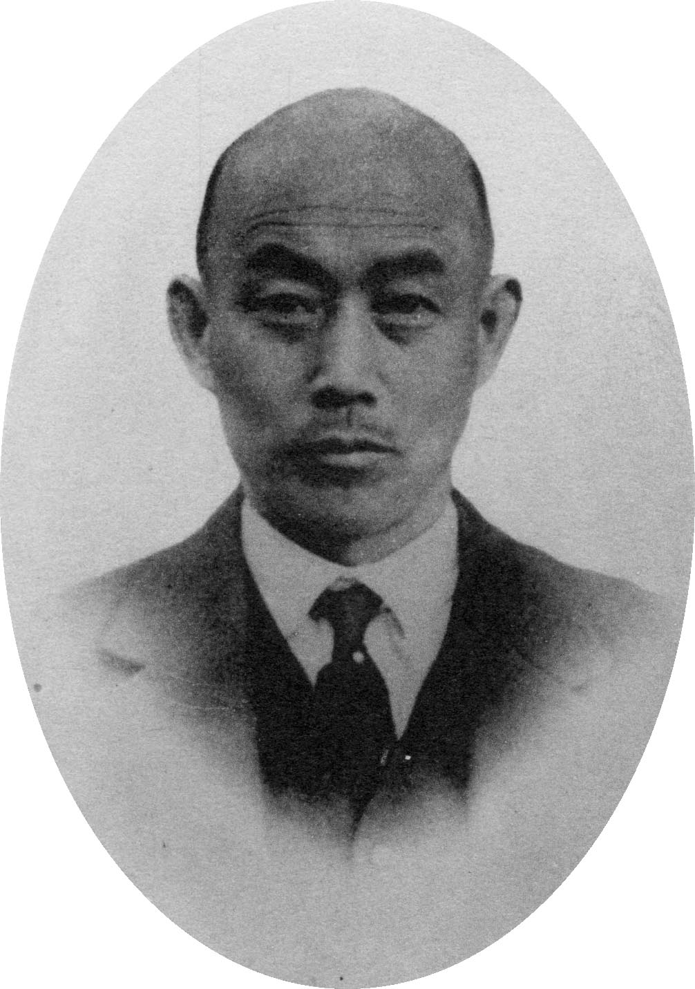 Mr. Chōshichi Itō.